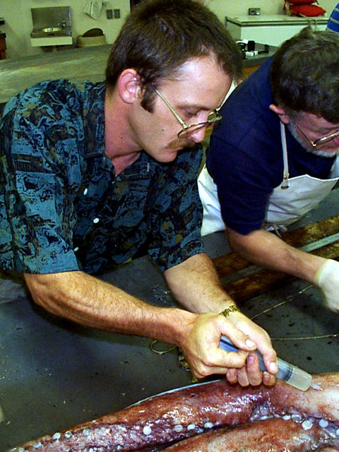 Photo from In Search of Giant Squid - 1999 Expedition Journals, Smithsonian Institution.